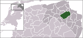 Locator map of Dutch municipalities in Groningen (LocatieSlochteren.png)